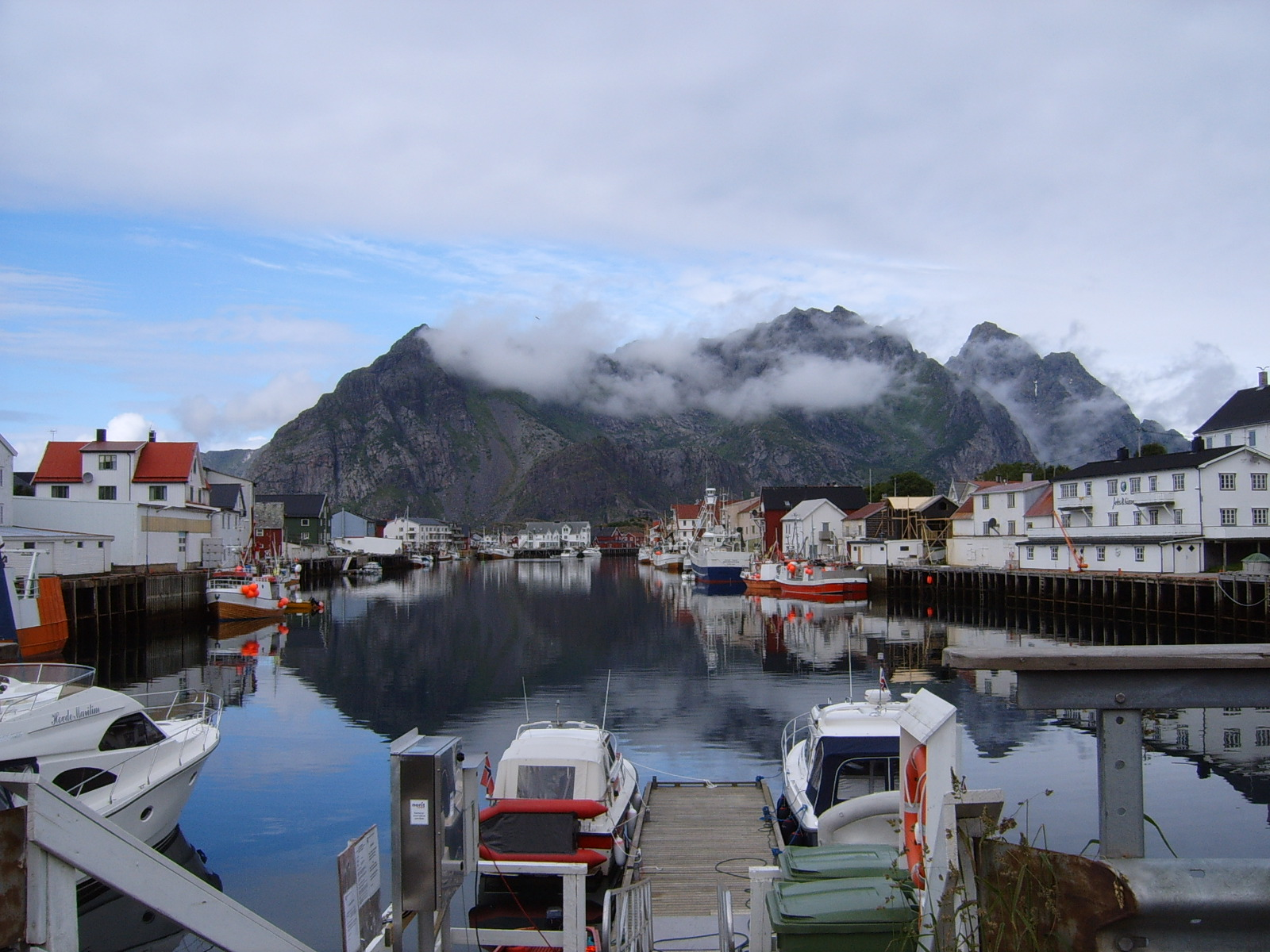 Henningsvær in the Lofoten islands, Nordland, Norway